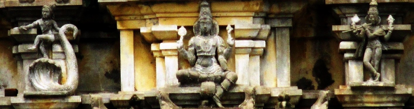 Pandavathoothartemple